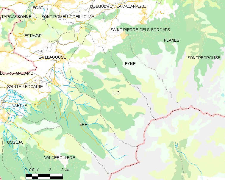 Map of French municipality